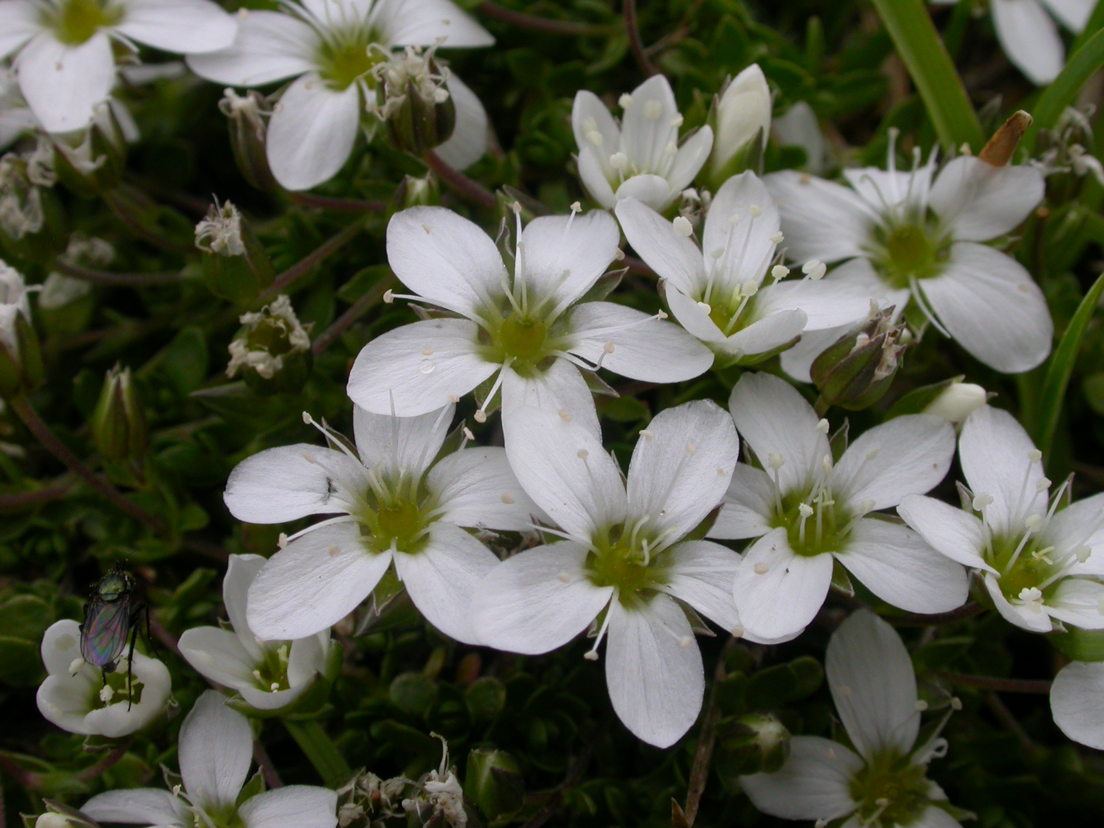 Arenaria ciliata Zermatt, Riffelberg (Kanton Wallis, Switzerland), 2500 m Author: Barbara Studer – own photograph Date: 2.08.06